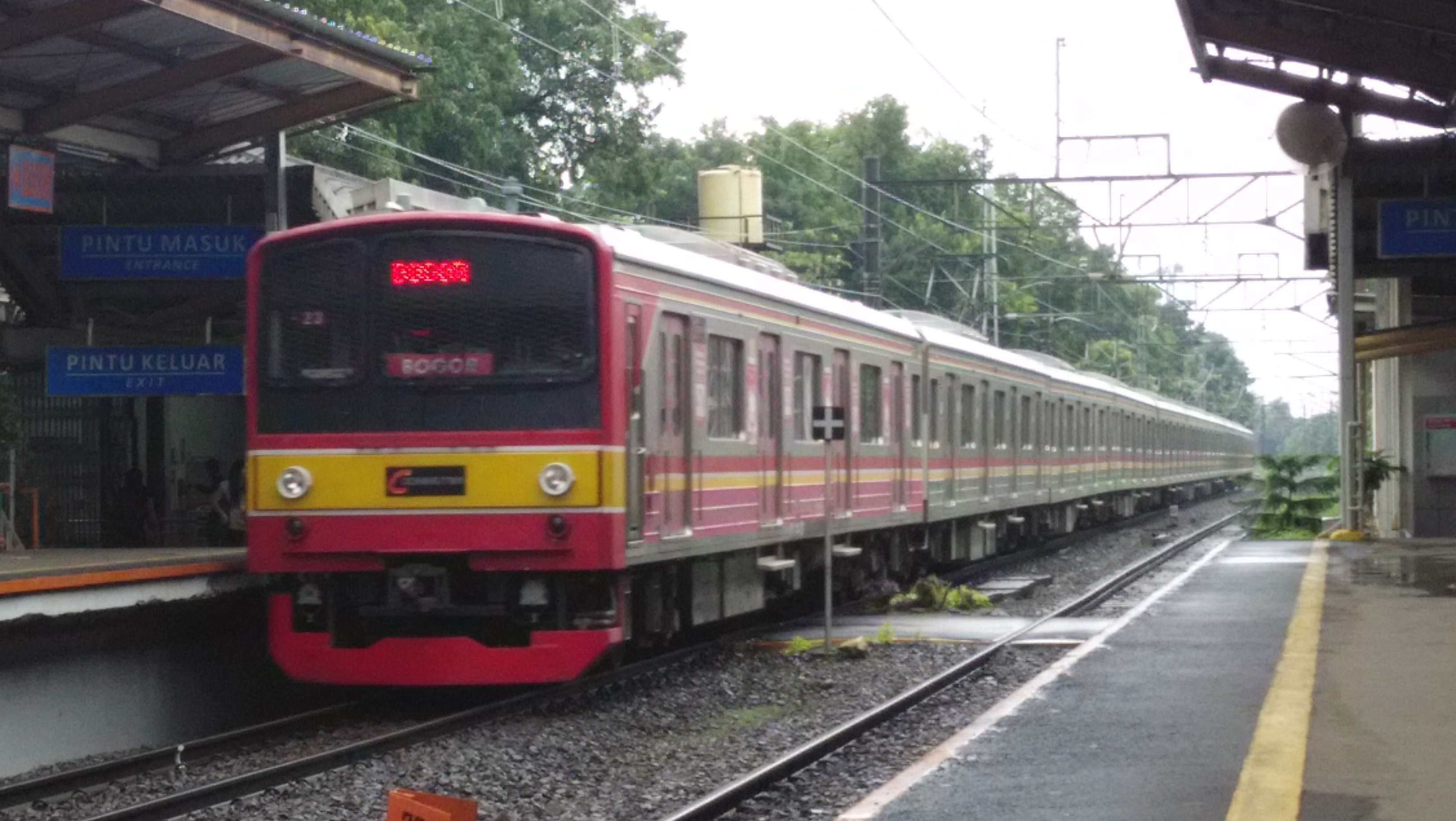 Ex Saikyo Line set 23 enters Pancasila University StationBahasa Indonesia: K1 1 14 121 TS memasuki Stasiun Universitas Pancasila